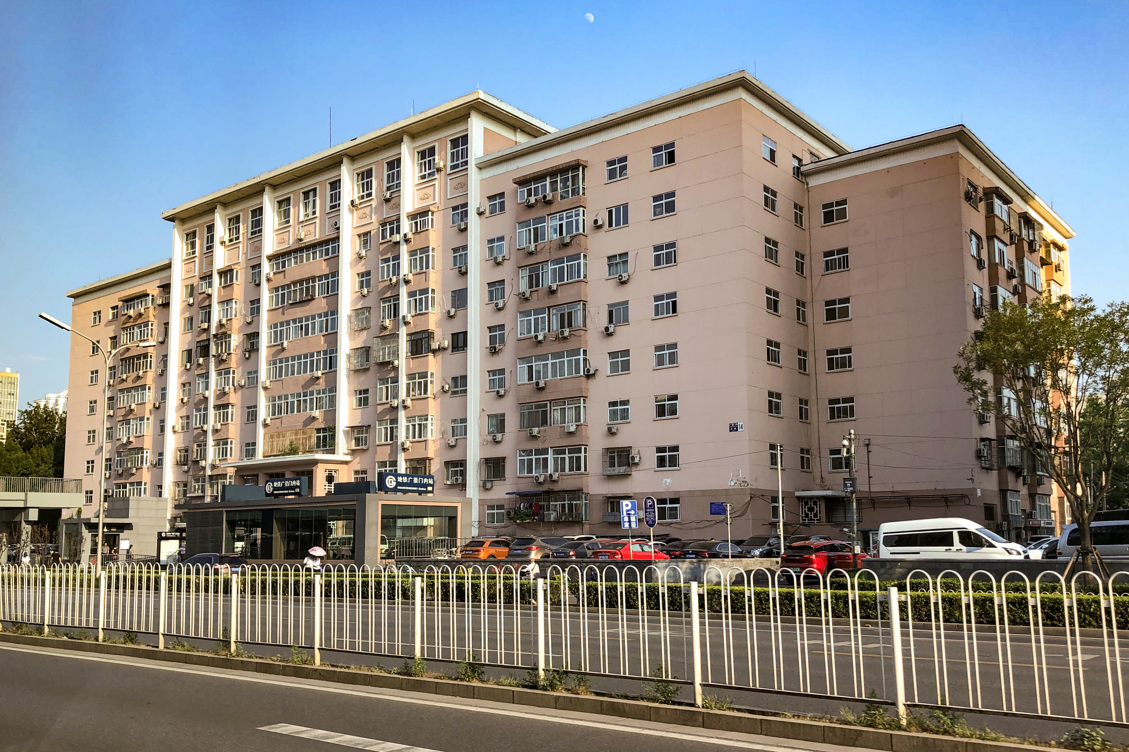 Taken from a 57 - this bright side appears only in summer.